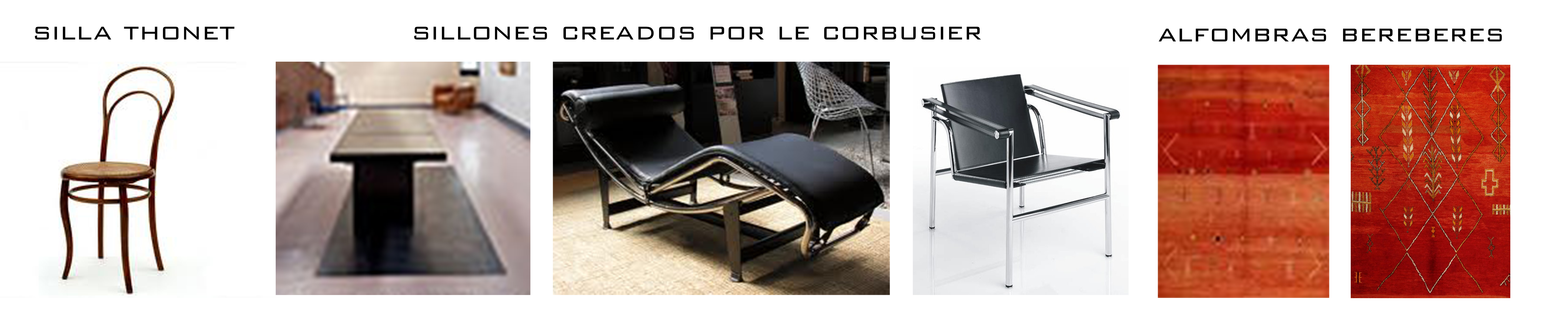 El Mobiliario